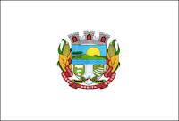 Flags of the city of Lagoa Bonita do Sul, Rio Grande do Sul, Brazil.